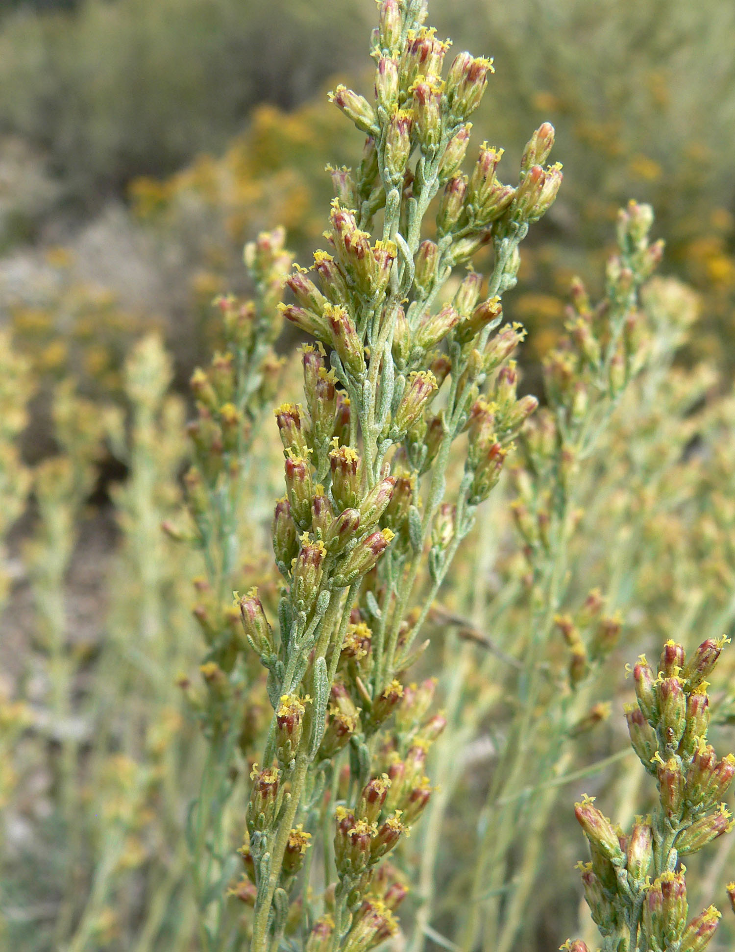 Artemisia nova in upper Lee Canyon near highway 156 below the Deer Creek Highway junction, Spring Mountains, southern Nevada (elev. about 2400 m)